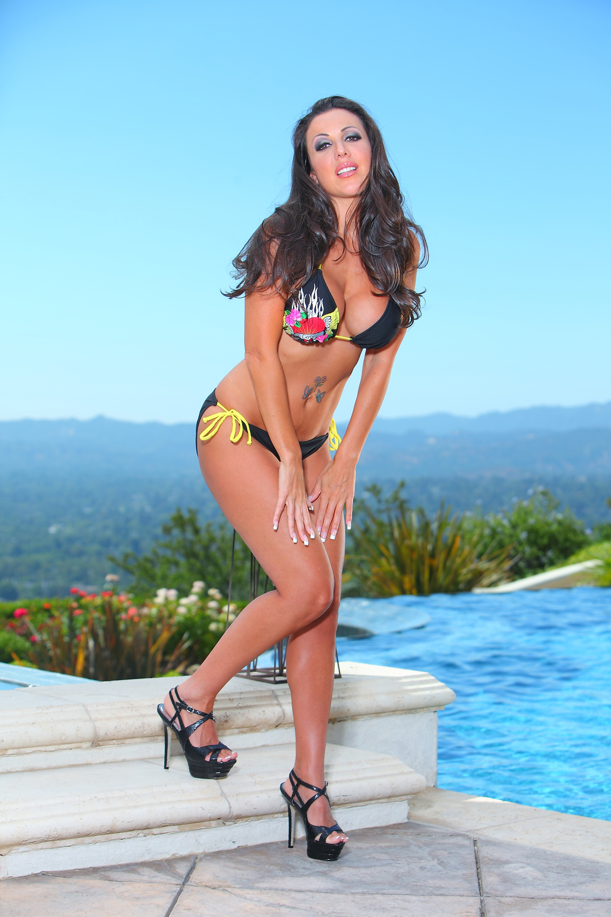 A photo of Amy Fisher taken in Malibu, California on August 9, 2010.